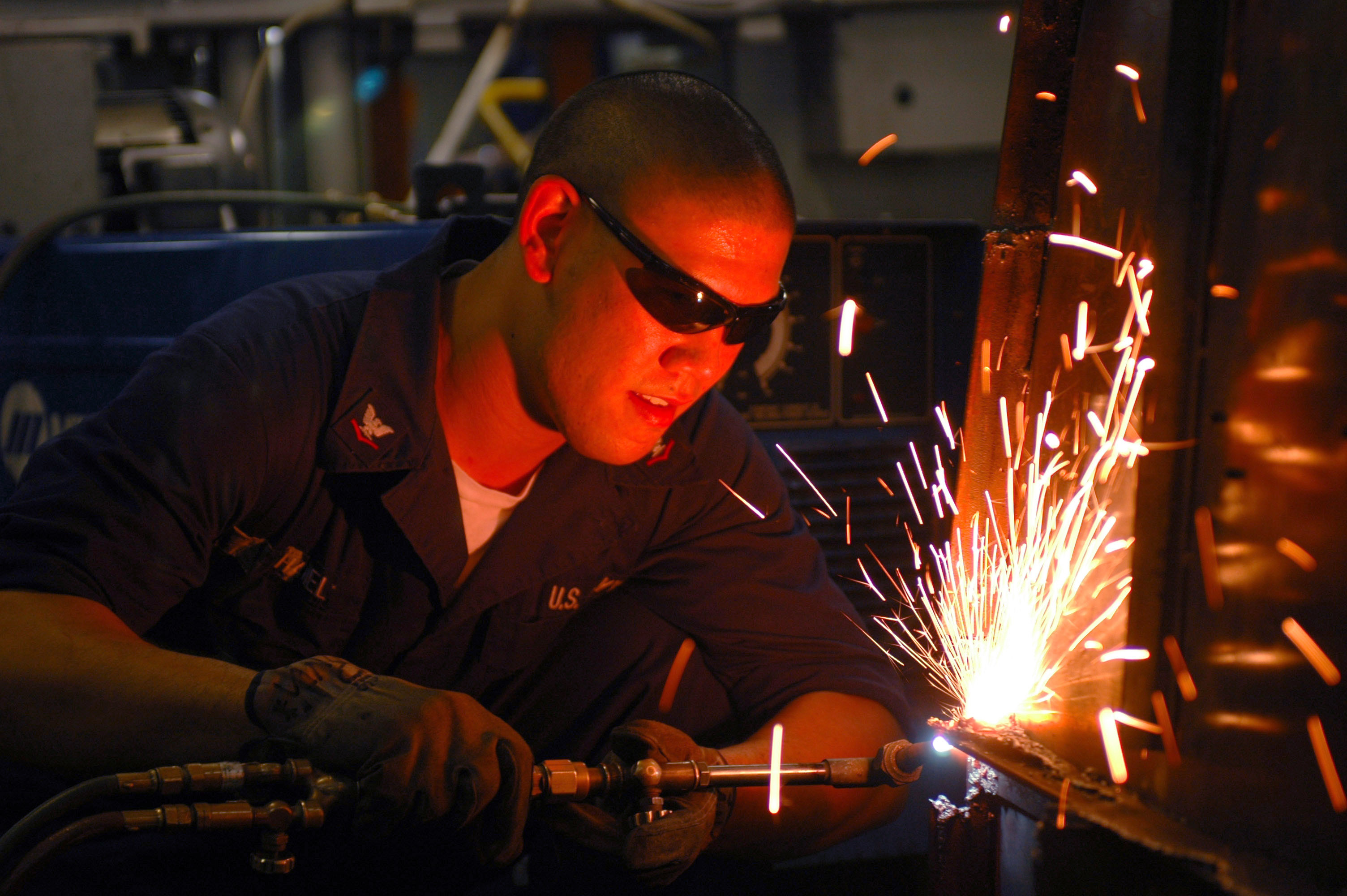 Pacific Ocean (Oct. 27, 2006) – Hull Maintenance Technician 3rd Class Jeremy Hanel uses a cutting torch to cut apart old shelving aboard the nuclear-powered aircraft carrier USS Nimitz (CVN 68). Nimitz is currently underway conducting Tailored Ships Training Availability (TSTA) off the coast of Southern California. U.S. Navy photo by Mass Communication Specialist Seaman Gretchen Marie Roth (RELEASED)